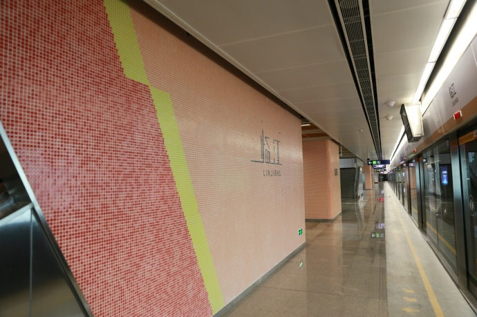 LinKiang Rd Station of Nanking Metro Line 10